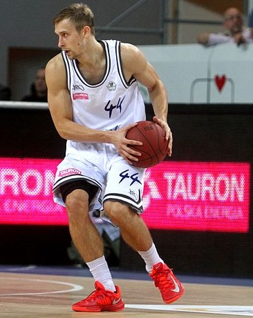 Deividas Dulkys playing for Anwil Włocławek in the Tauron Basket Liga